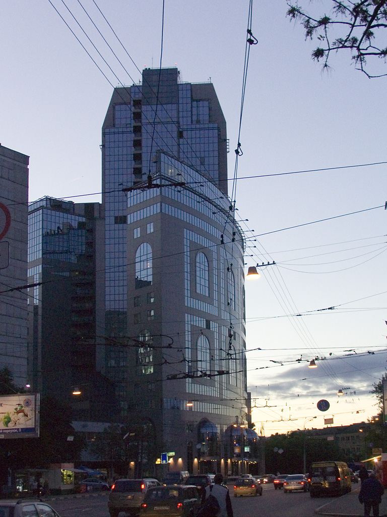 Main Office of Russian Railways (JSC "RZD")